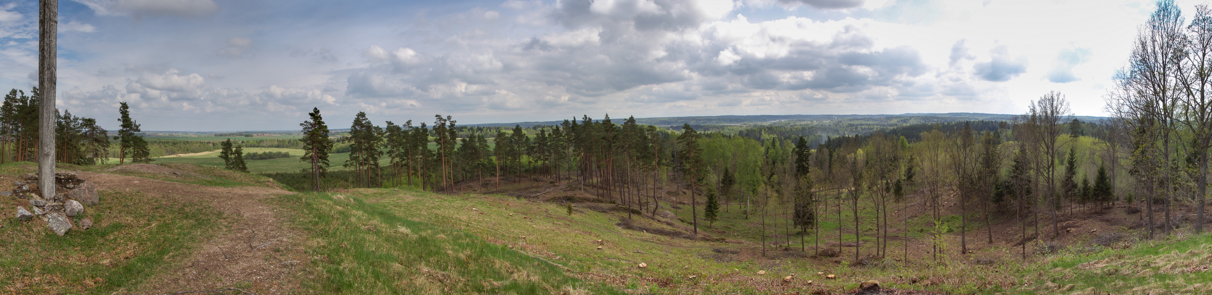 View from the Hill Girnikai (Siauliai district, 2013)